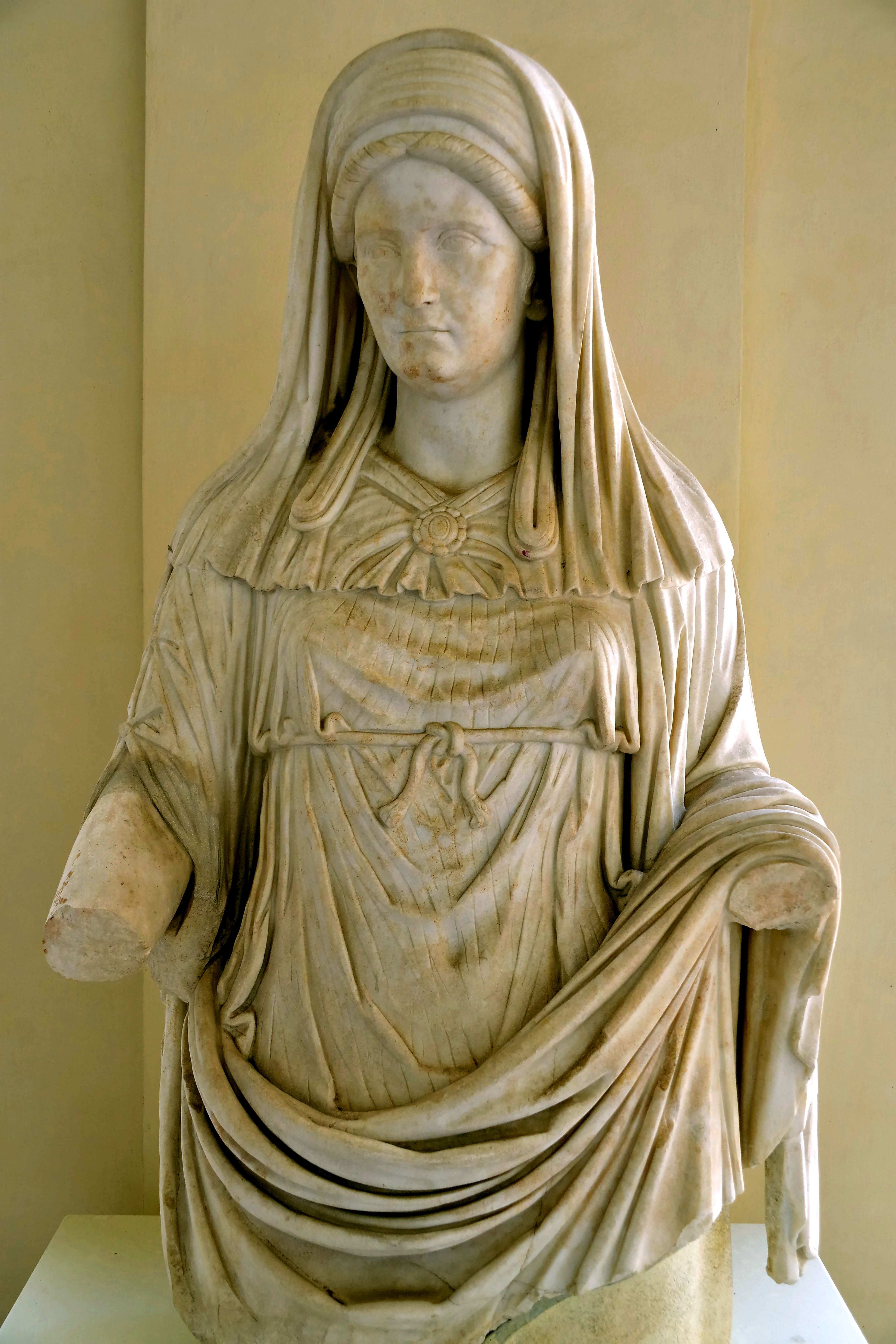 Portraits sculpture of a Vestalis Maxima (2nd century AD)